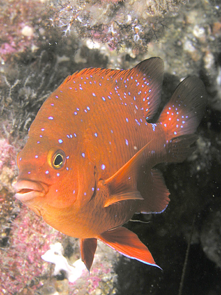 Juvenile Garibaldi (Hypsypops rubicundus), Catalina Island, Channel Islands, California. Image taken by Clark Anderson/Aquaimages.